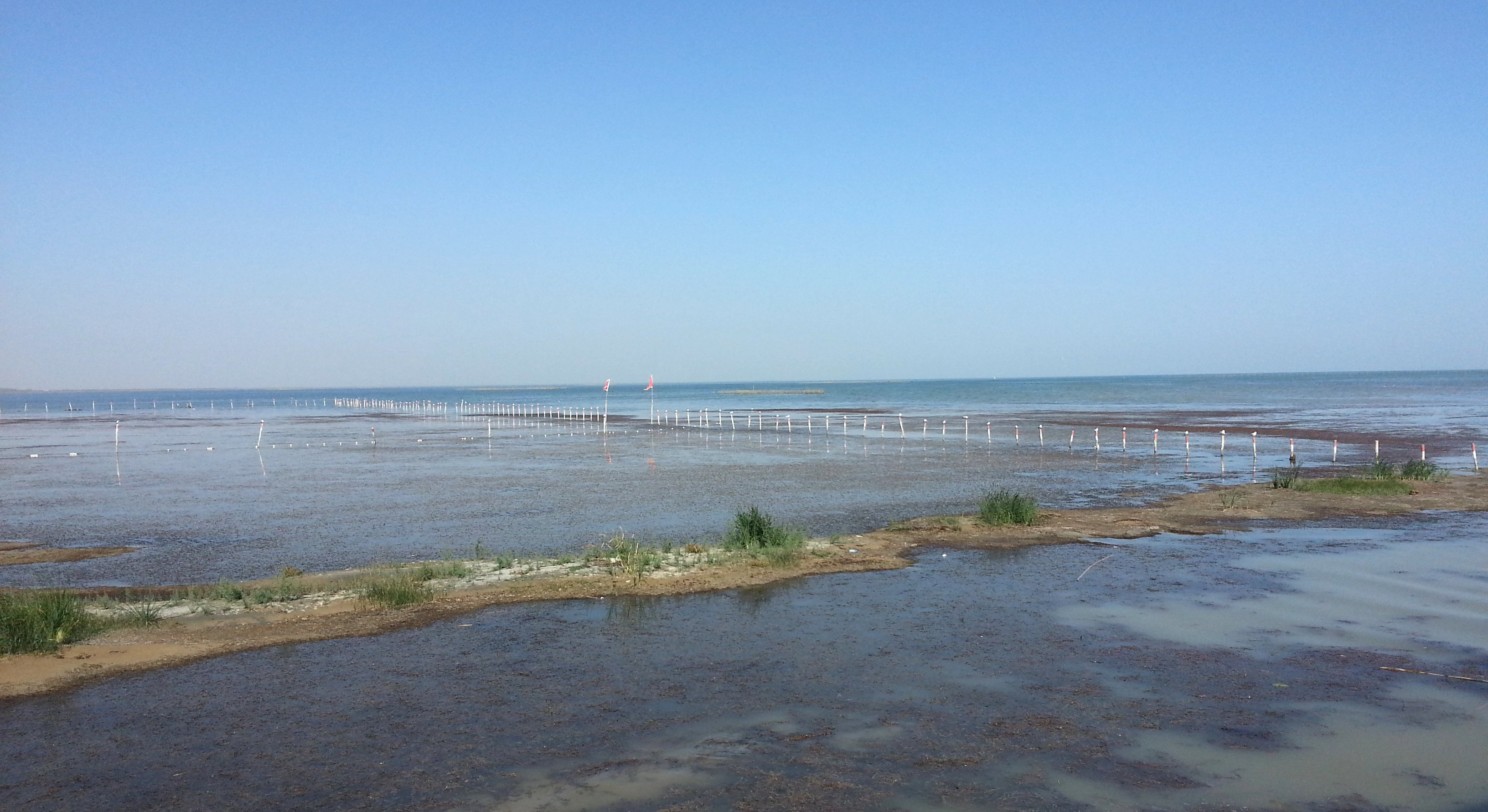 Photograph of Bosten Lake, Bayin'gholin Mongol Autonomous Prefecture, northeast of Korla, Xinjiang, China, seen from the shore.